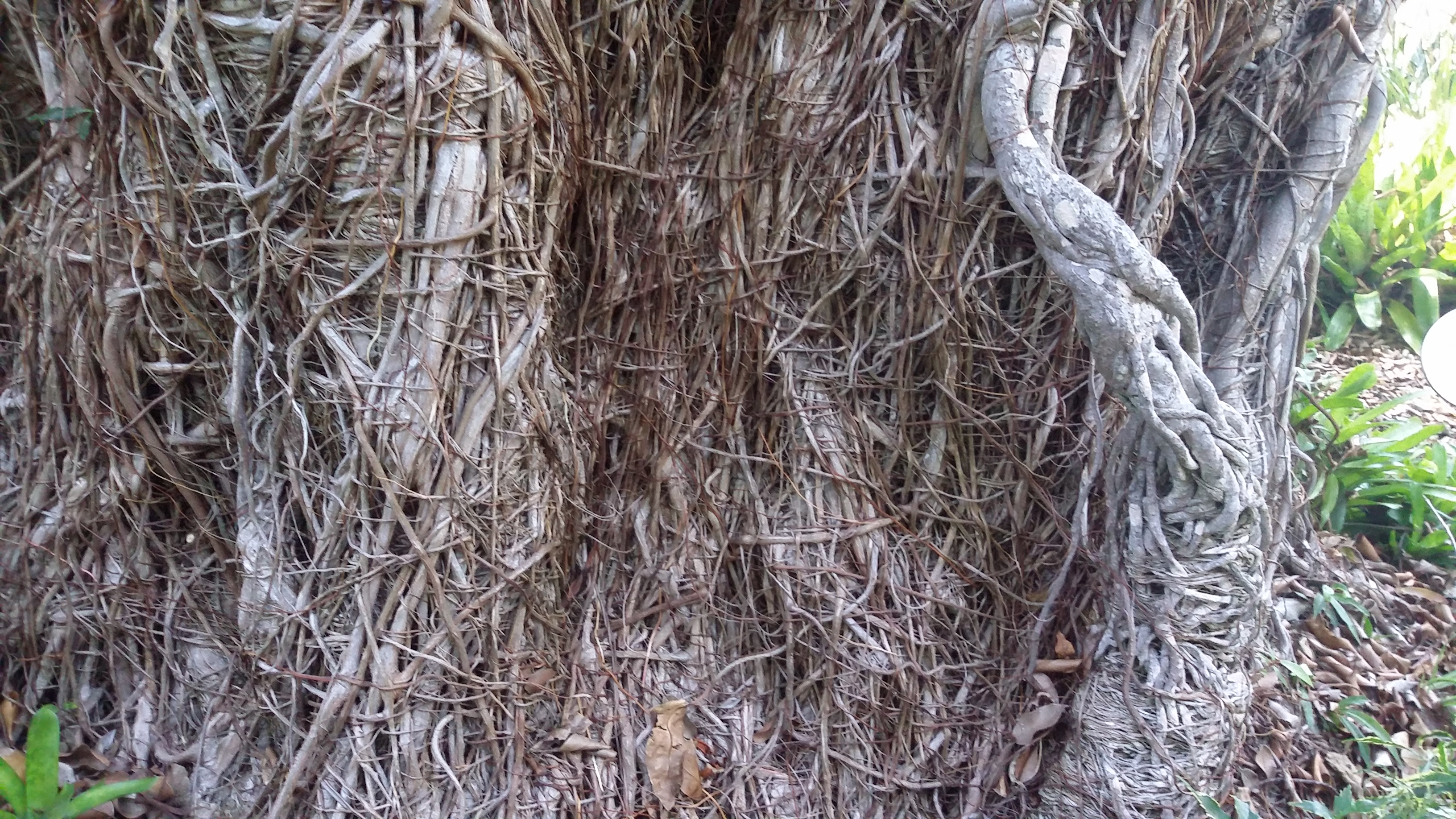 Coussapoa microcarpa in the Jardin Botanico Puerto de la Cruz in Tenerife